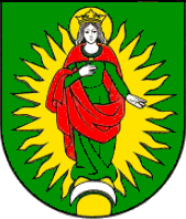 Coat of arms of Pezinok, Slovakia